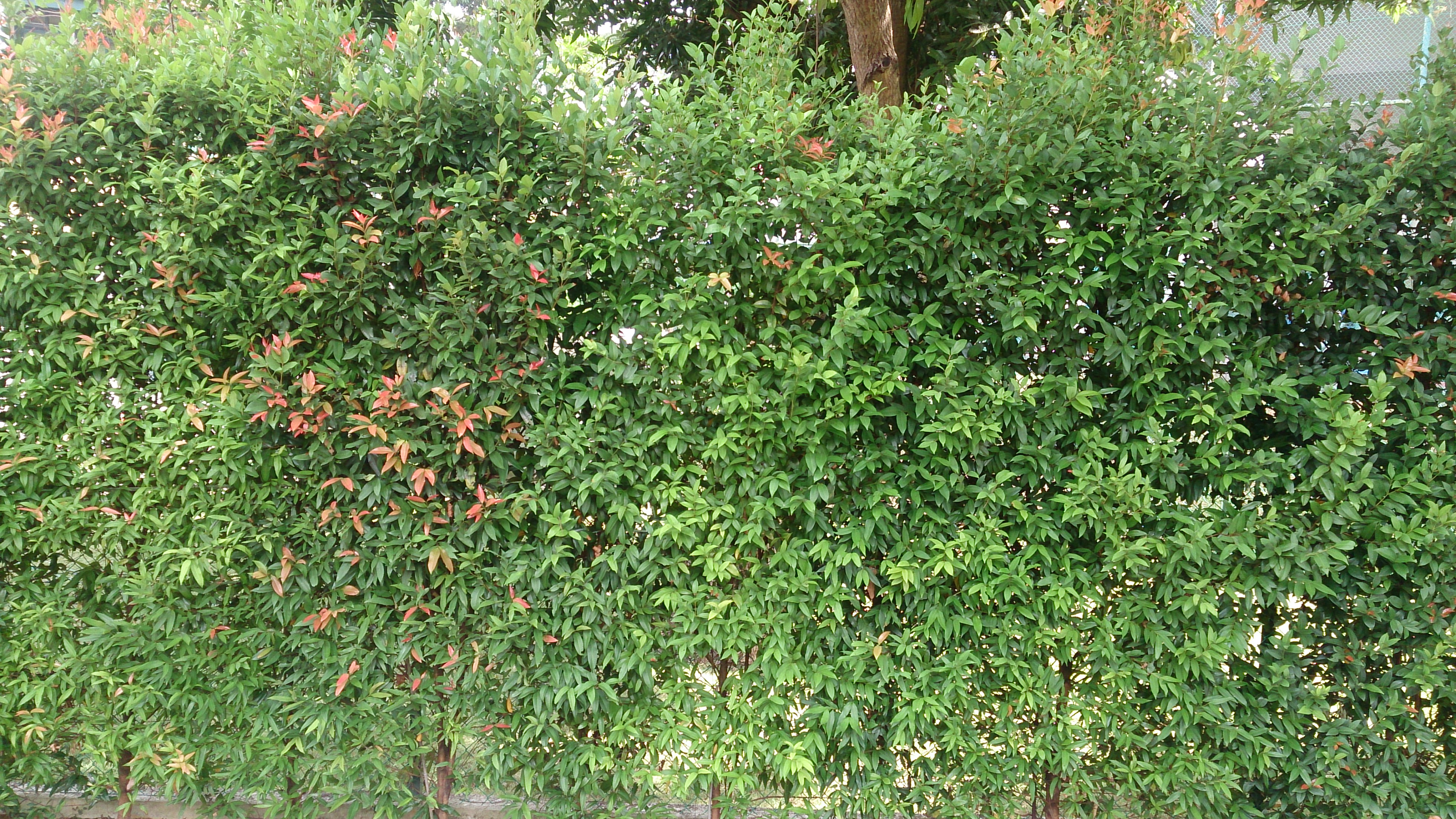 Kelat Paya used as a tall hedge. Syzygium campanulatum. Common name: Kelat paya (Malay)